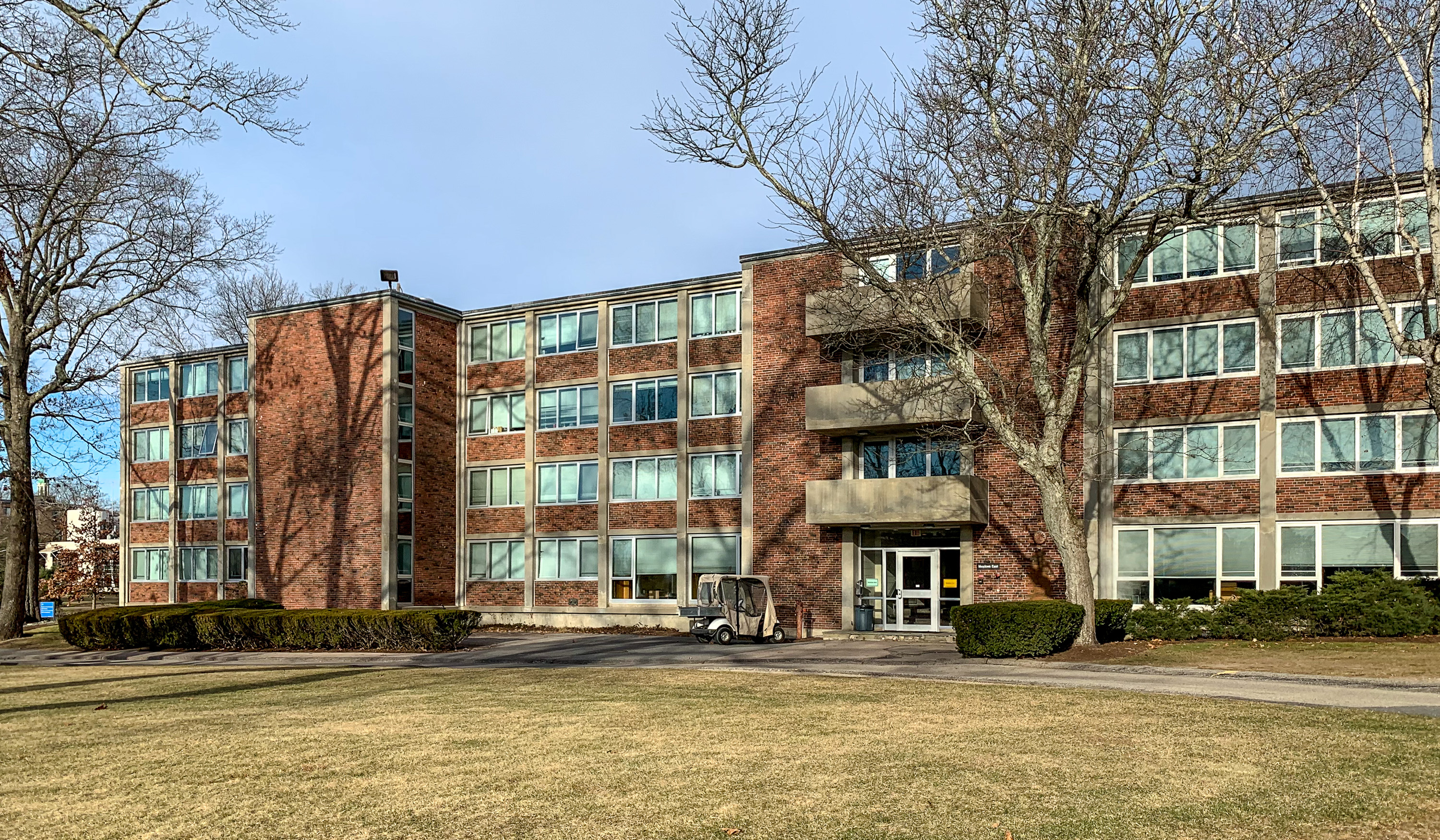 Meadows East, Wheaton College Massachusetts. Residence Hall, built in 1964.